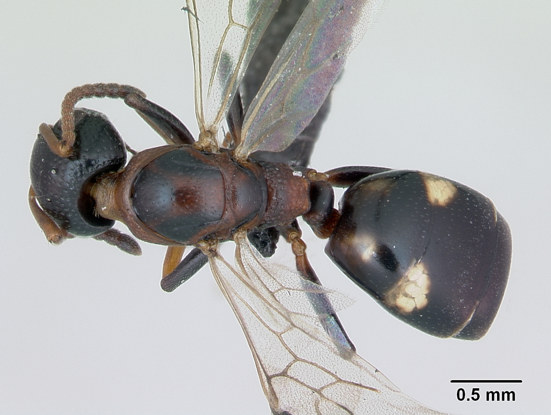 Dorsal view of ant Dolichoderus quadripunctatus specimen casent0173183.